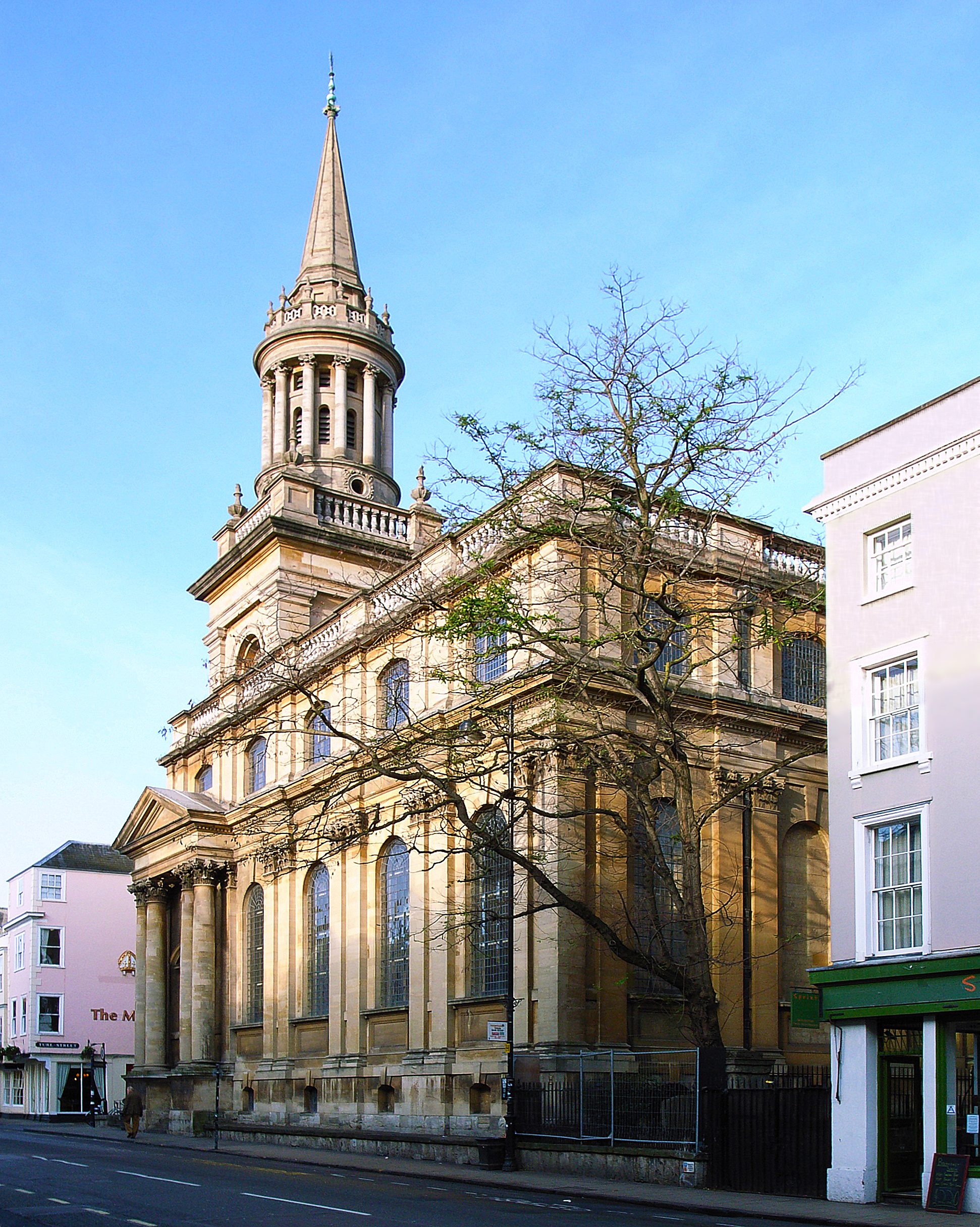 The former Church of England parish church of All Saints, High Street, Oxford: view from the High Street. The church was built 1706-08 and may have been designed by Henry Aldrich. In the early 1970s it was converted into a library for Lincoln College.